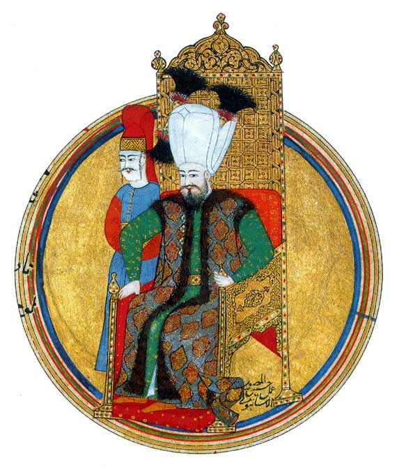 Sultan Mehmed IV. Ottoman miniature painting from a book from Constantinople. Österreichische Nationalbibliothek, Vienna (Inv. Cod. A.F. 50)